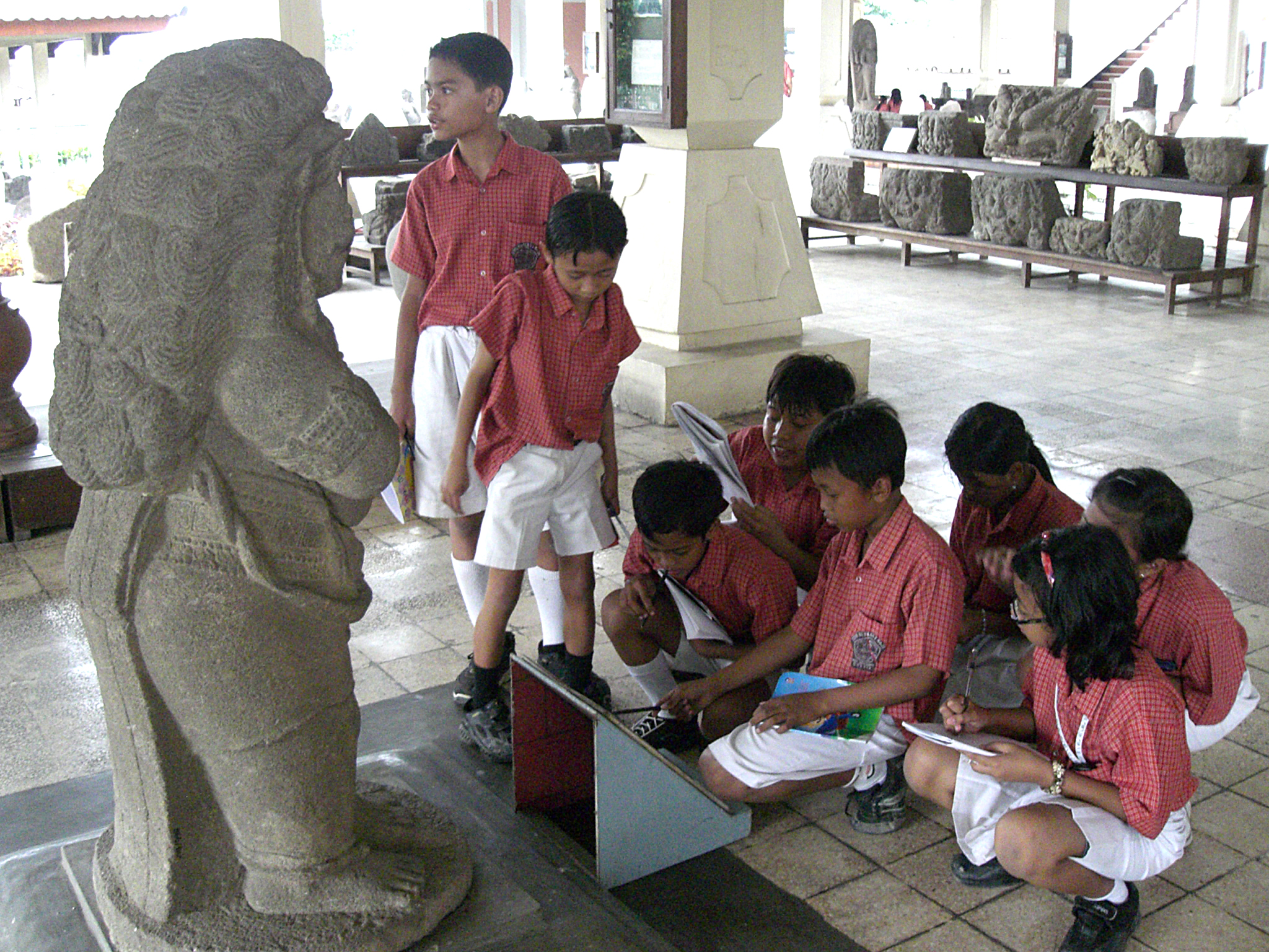 The students examine the Dwarapala guardian statue during their study tour at Trowulan Museum, East Java, Indonesia.